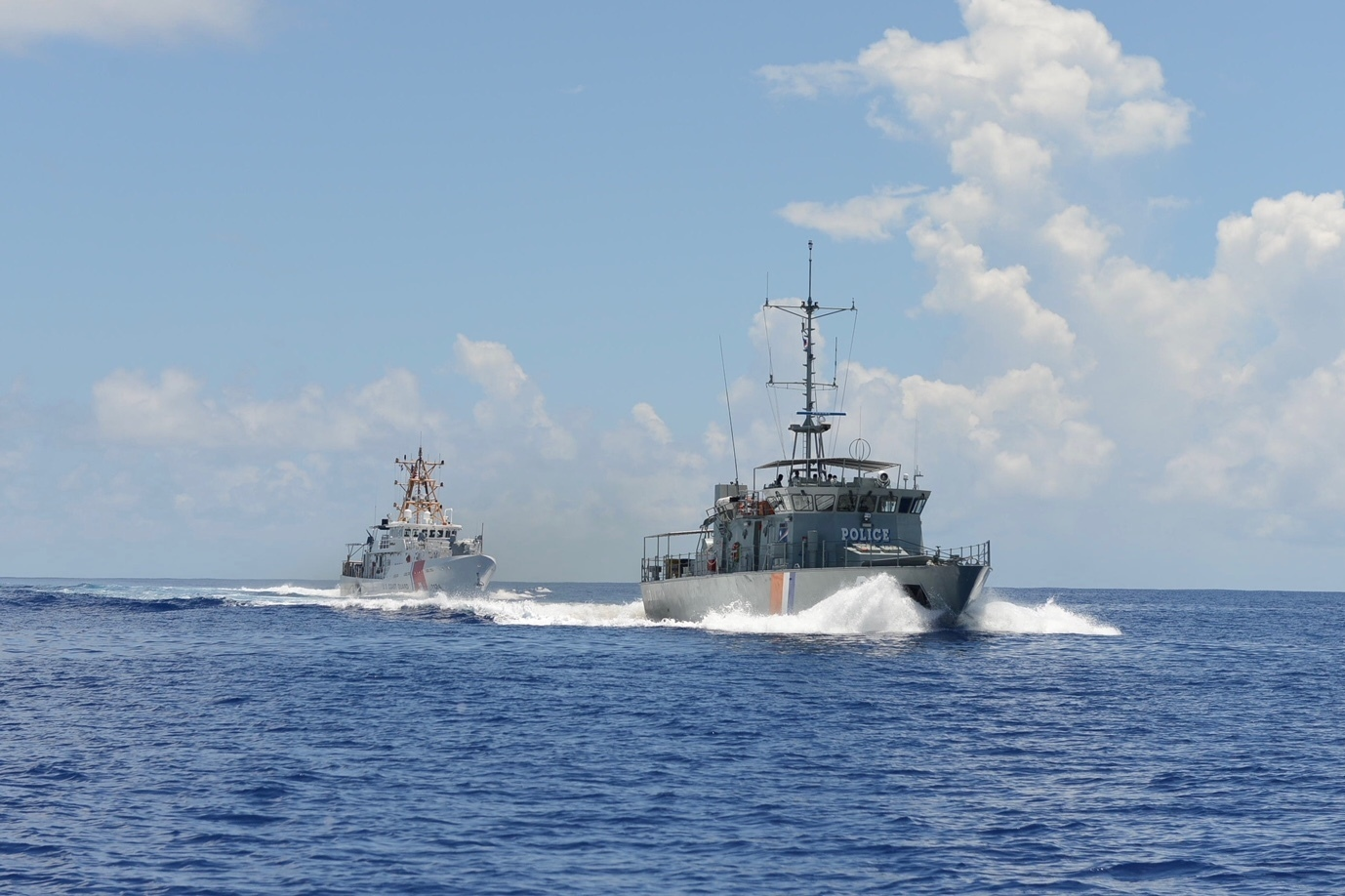 Marshall Islands Police patrol vessel Lomor and USCGC Oliver Berry. Original caption: "U.S. Coast Guard Cutter Oliver Berry (WPC 1124) sails in formation with the Republic of the Marshall Islands Ship Lomor 03 off Kwajalein Atoll, July 3, 2018. The crews rendezvoused en route to Majuro Atoll while the RMI crew conducted the 24-hour escort. (U.S. Coast Guard photo by Petty Officer 3rd Class Amanda Levasseur/Released)" VIRIN = 180703-G-CA140-115